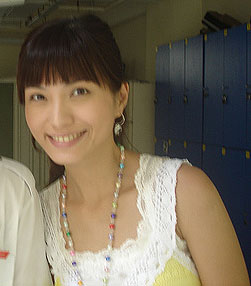 Cropped by yhjow. Photo taken when 6 of the star awards (top 10 actress) came to Yi-en-Shawn's school to film Star Awards Prelude 2007.